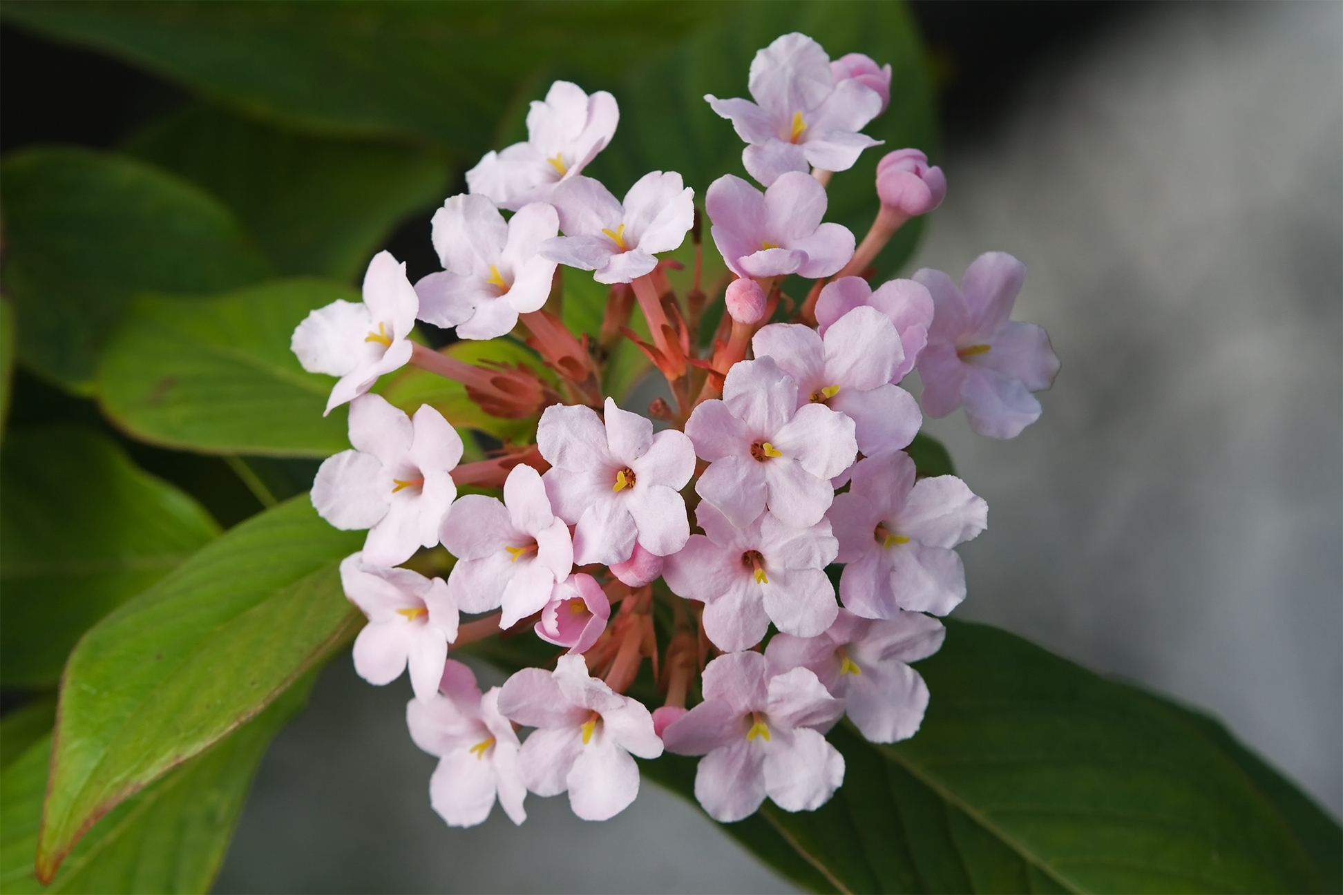 Luculia gratissima, Austin's Ferry, Tasmania, Australia